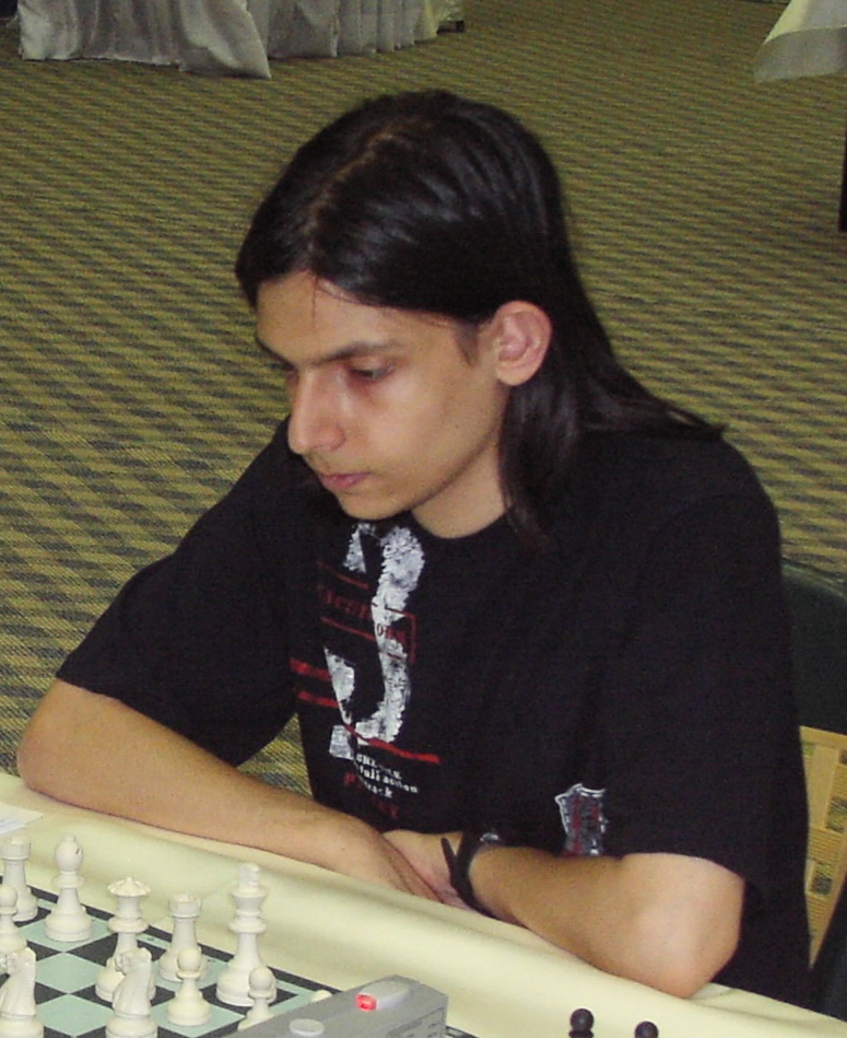 IM Ioannis Papadopoulos Greece, World Junior Chess Championship, Gaziantep 2008